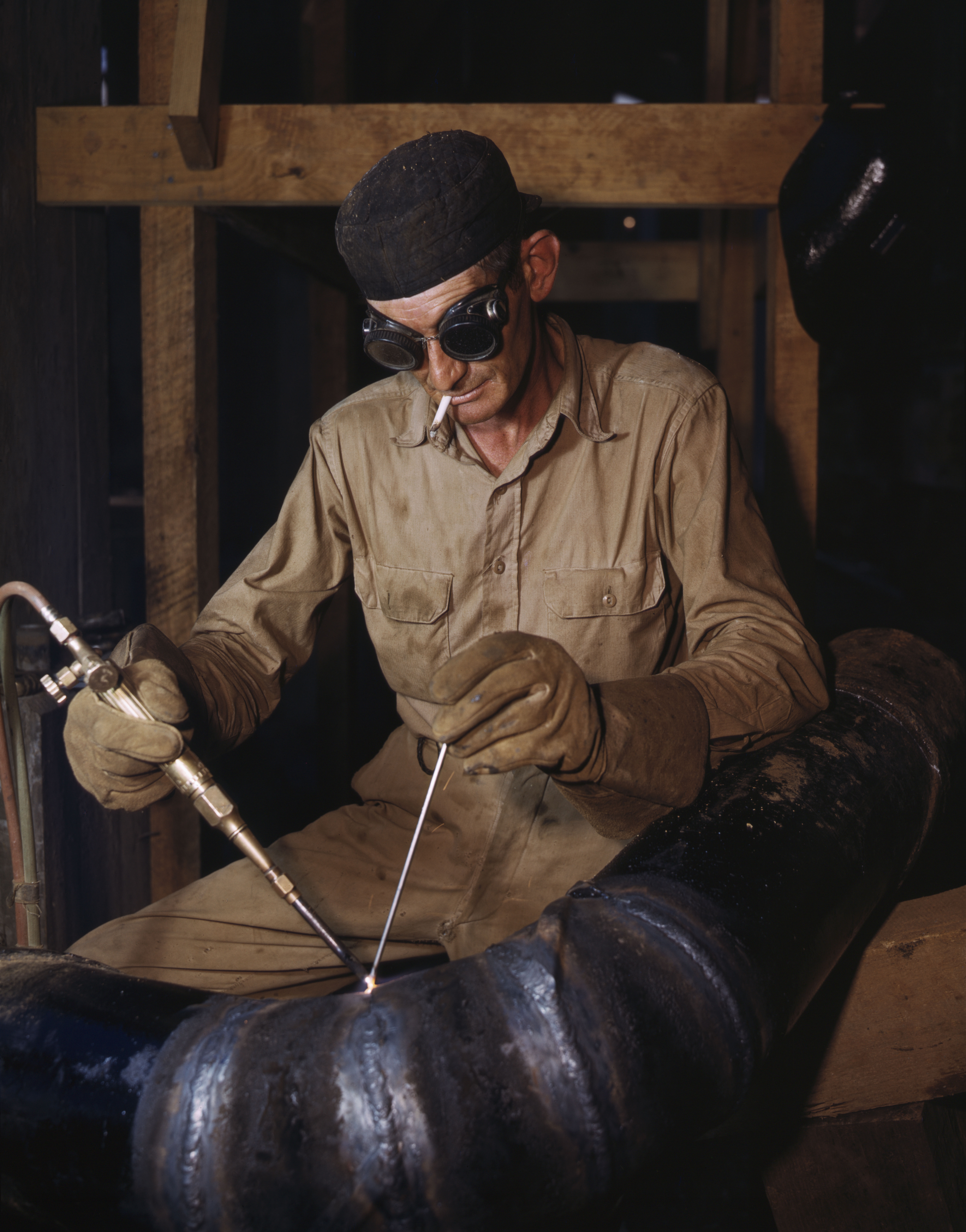 Gas welding a joint in a line of spiral pipe at the TVA's new Douglas Dam on the French Broad River, Tenn. This dam will be 161 feet high and 1,682 feet long, with a 31,600-acre reservoir area extending 43 miles upstream. With a useful storage capacity of approximately 1,330,000 acre-feet, this reservoir will make possible the addition of nearly 100,000 kw. of continuous power to the TVA system in dry years and almost 170,000 kw. in the average year.